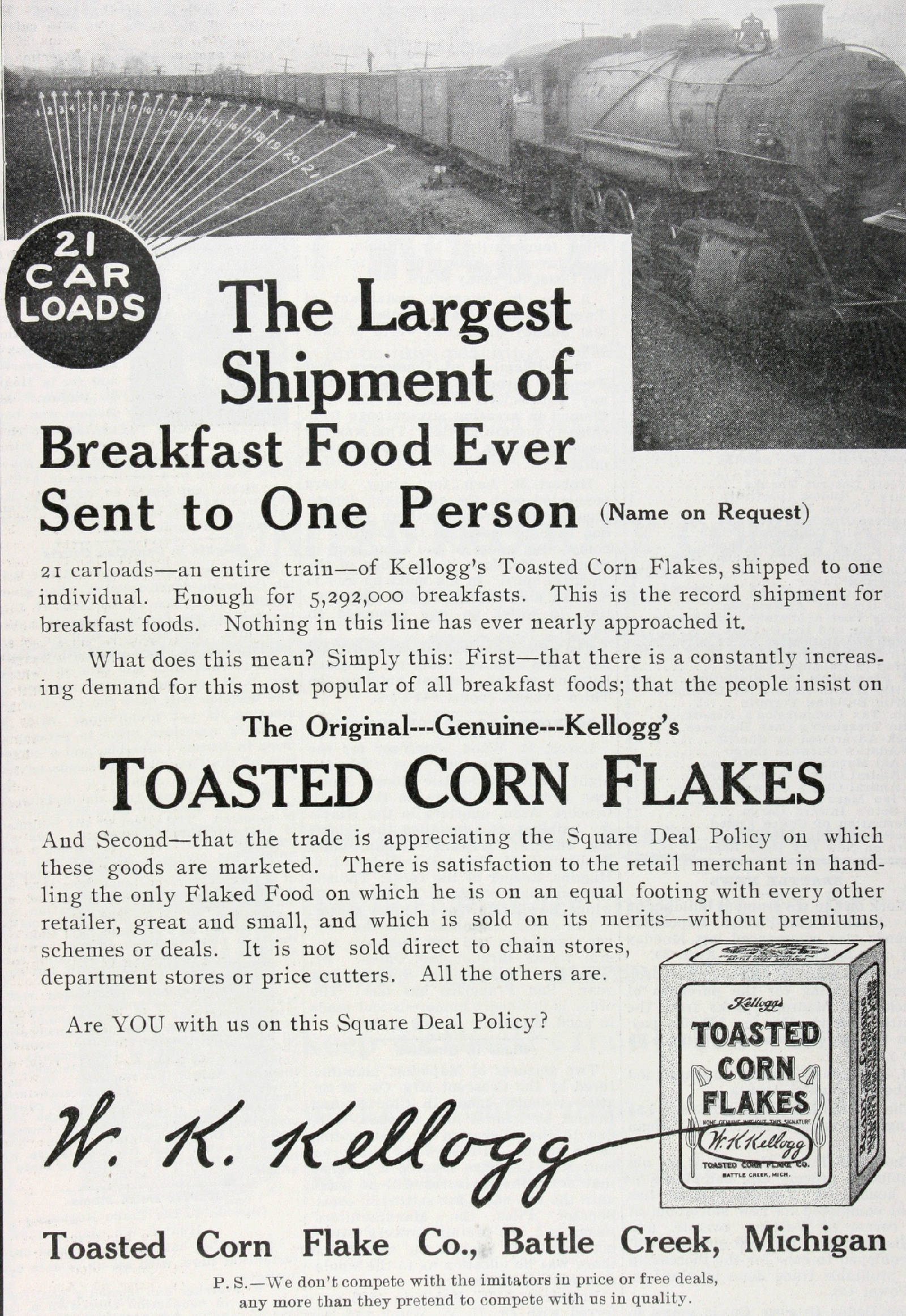 In 1898, W.K. Kellogg created a process for flaking corn. Eight years later, he founded the Toasted Corn Flake Co. in Battle Creek, Michigan. Kellogg differentiated the cereal from Post Toasties by marketing it as the "only genuine Toasted Corn Flakes" and including his hallmark signature on every box and advertisement. Geographic coverage: United States Subjects (LCTGM): Prepared cereals Subjects (LCSH): Breakfast cereals Categories: Nutrition and food; Commercial products; Railroad travel